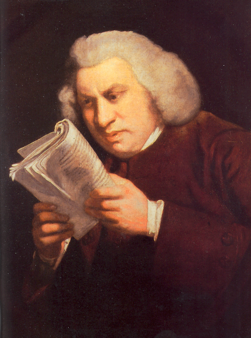 A portrait of Samuel Johnson by Joshua Reynolds showing Johnson pulling a book's cover back and concentrating intensely on its words. It also, Johnson felt, shows his weak eyes.